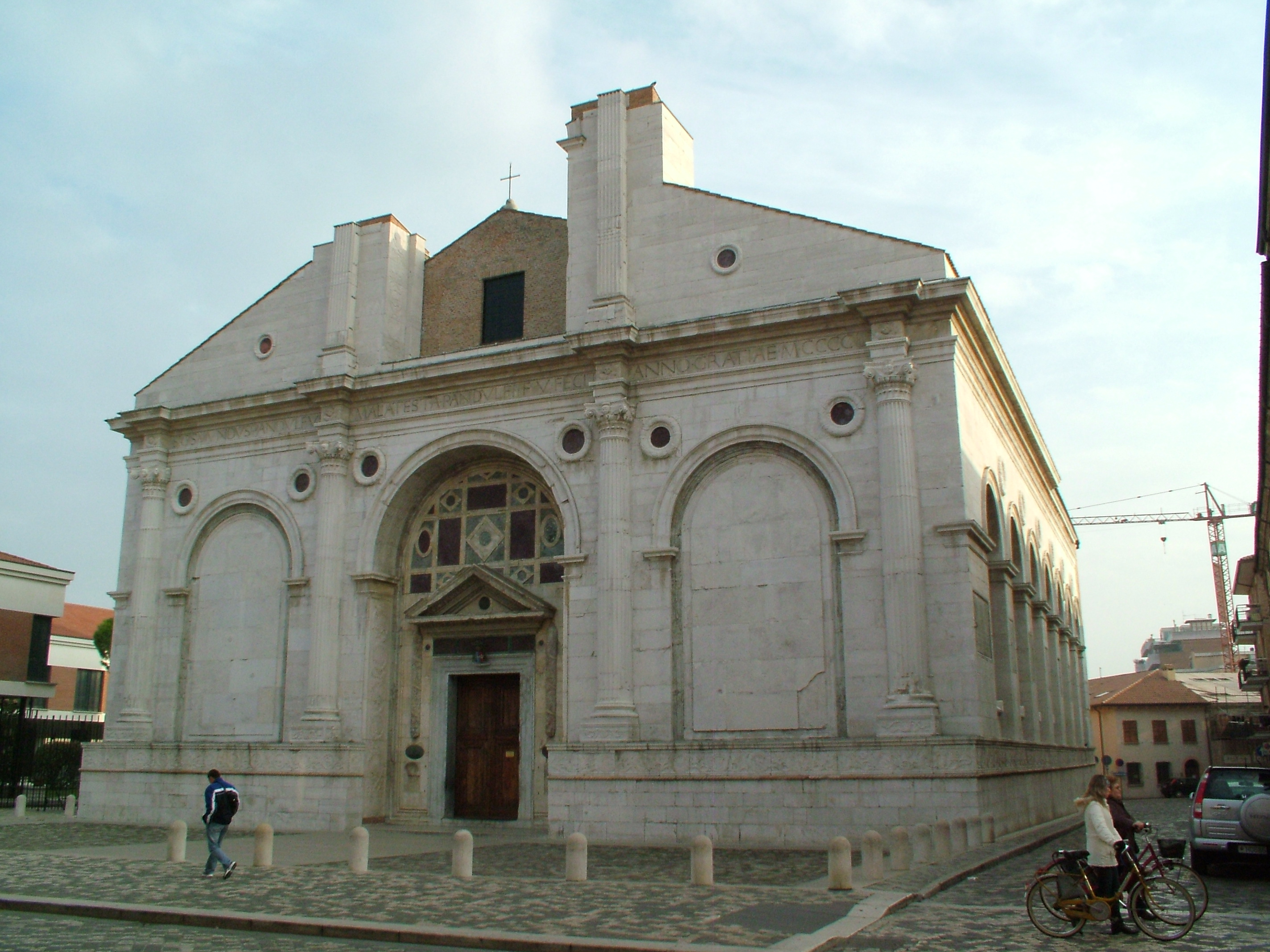 see above